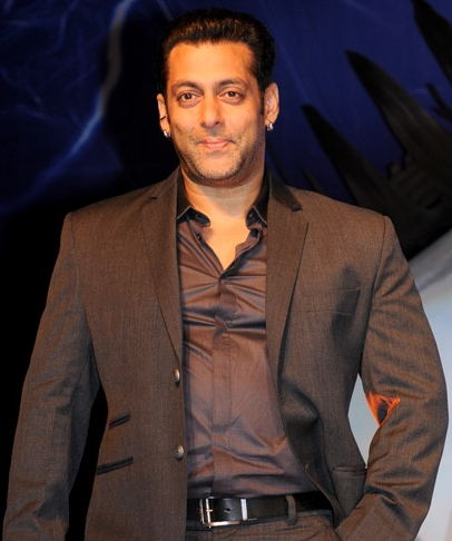 Salman Khan at the launch of Bigg Boss 6